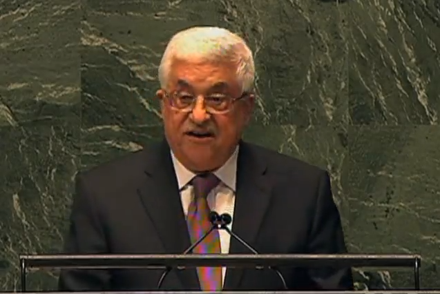 Palestinian President Mahmoud Abbas speak after United Nations General Assembly resolution 67/19 is passed.